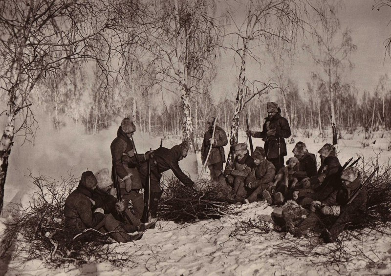 Czech Troop on patrol in Russia